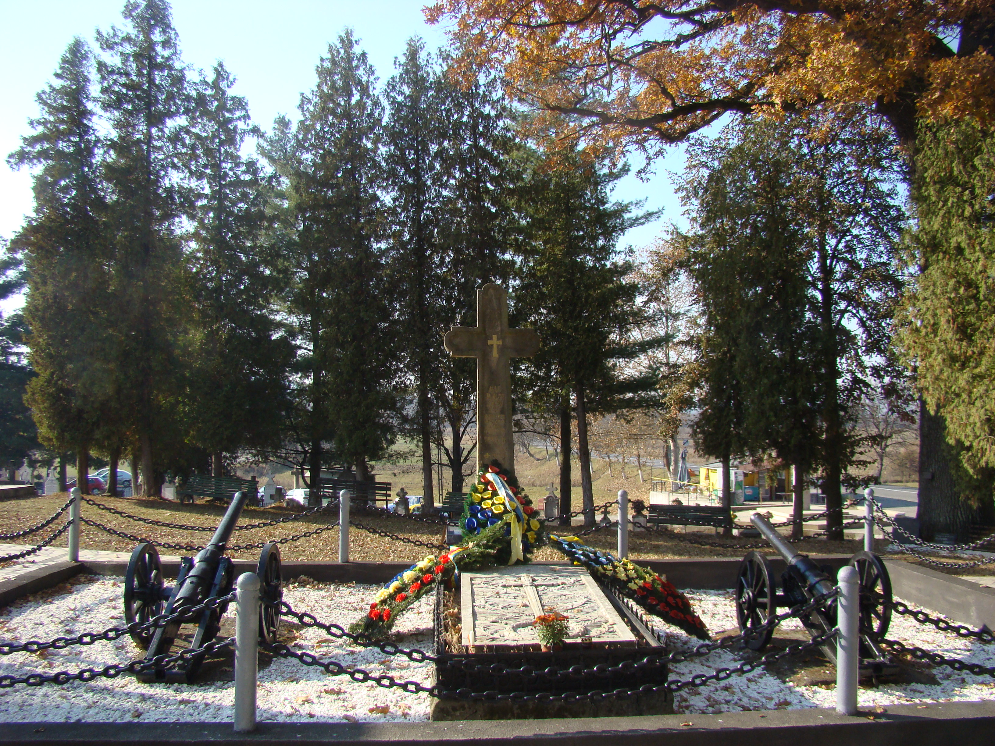 Avram Iancu's tomb